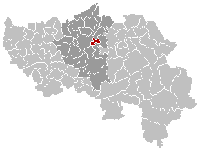 Map, municipality belgium Beyne-Heusay